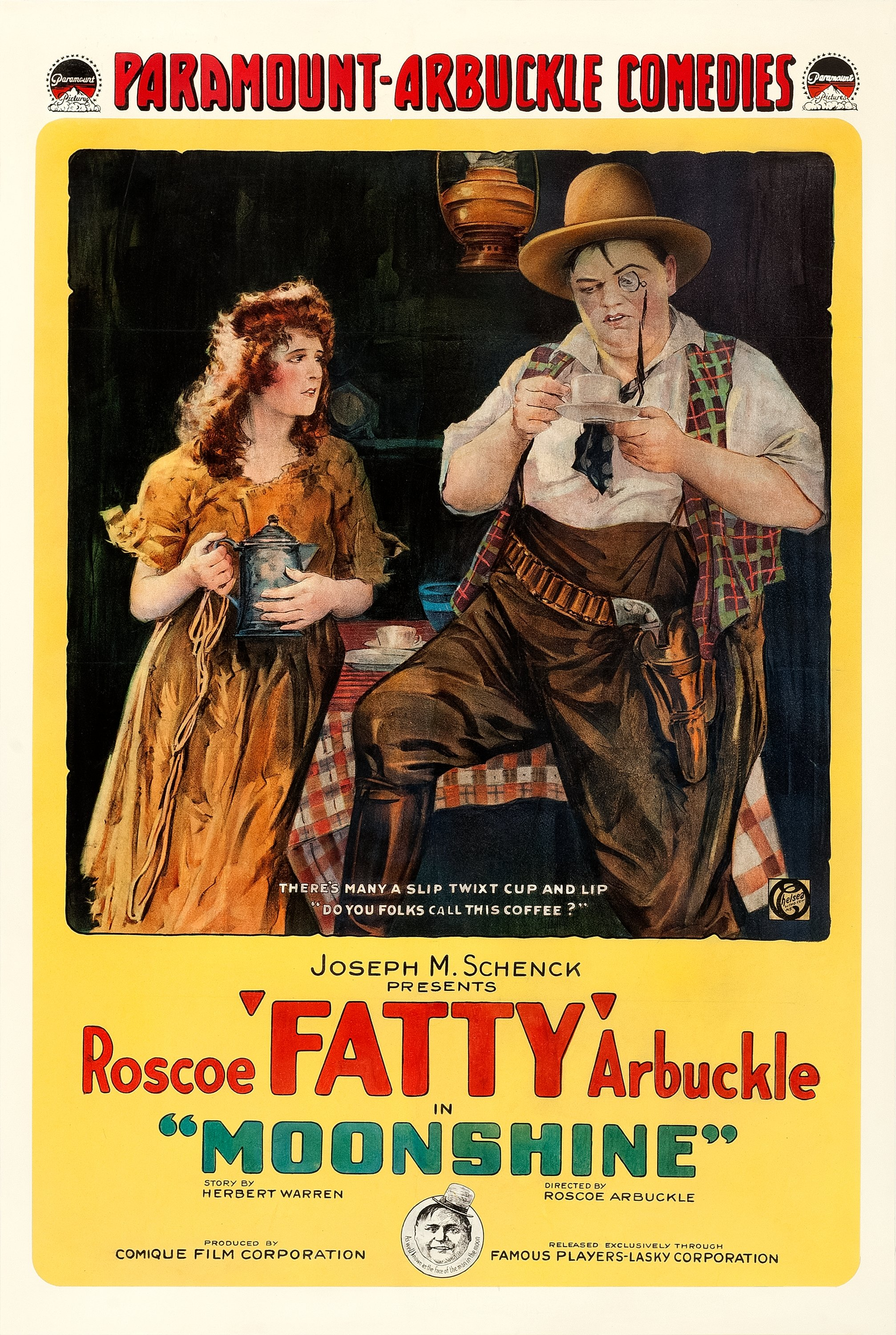 Poster for the comedy film Moonshine (Paramount, 1918). One Sheet (28 X 41).